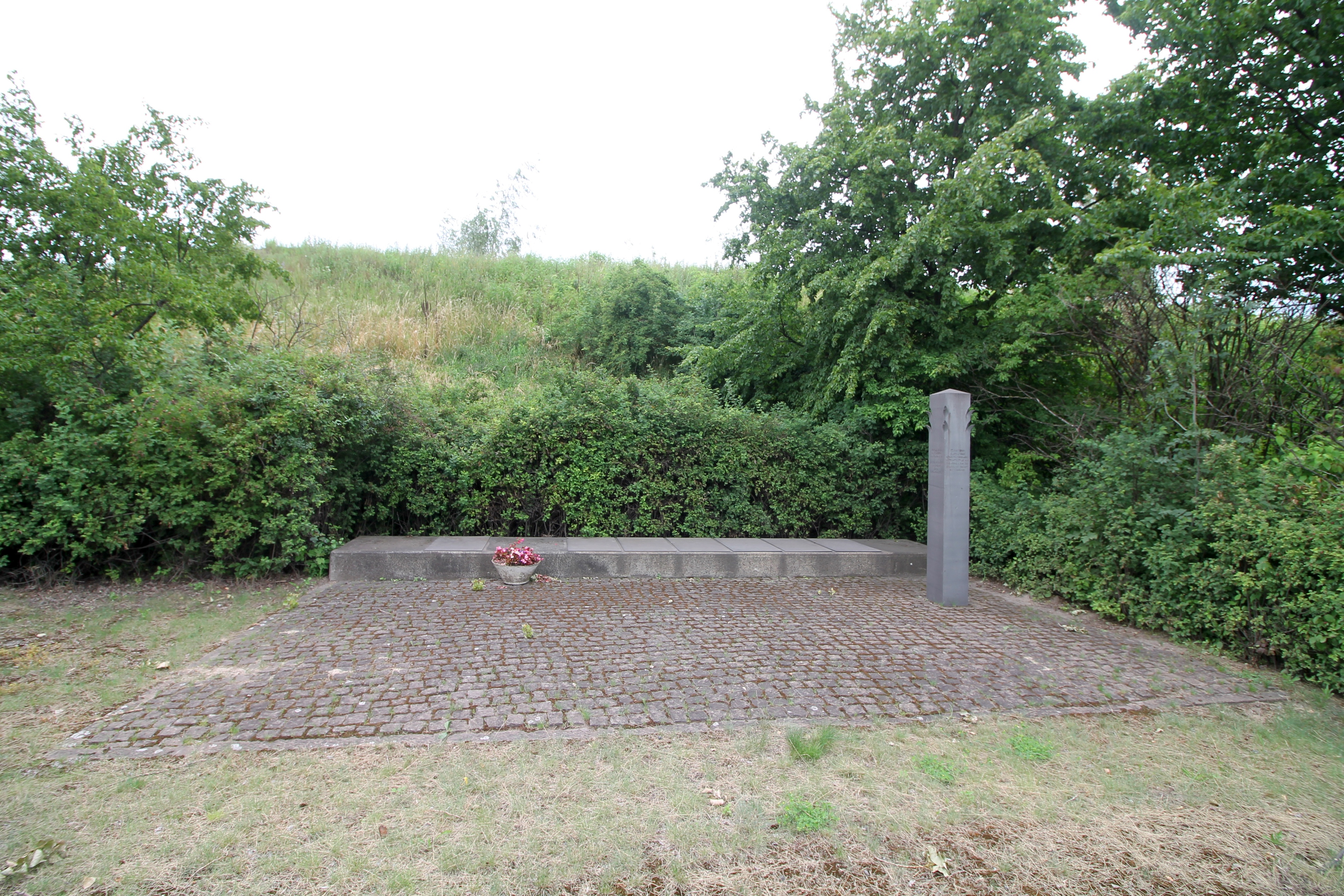 Nazi concentration camp Salzgitter-Watenstedt memorial. Bundesstrasse B248 near Salzgitter-Leinde, Salzgitter, Lower Saxony, Germany.